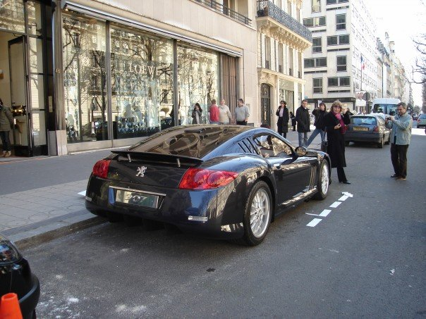 Rear shot of the 907 I took while strolling through Paris